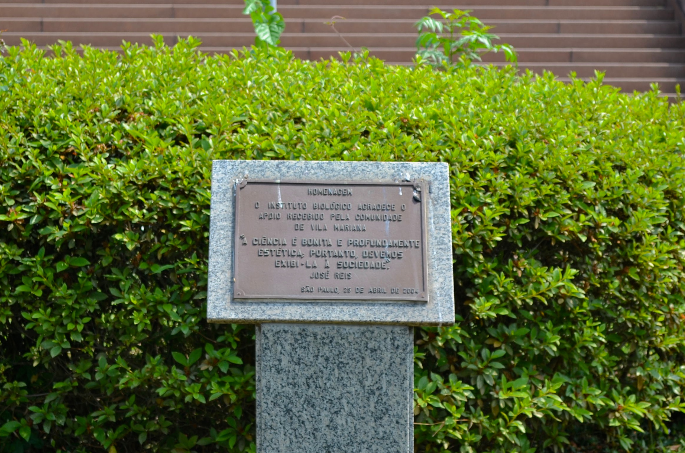 Monumento em agradecimento ao apoio da comunidade do bairro ao Patrimônio, em São Paulo (SP), Brasil.